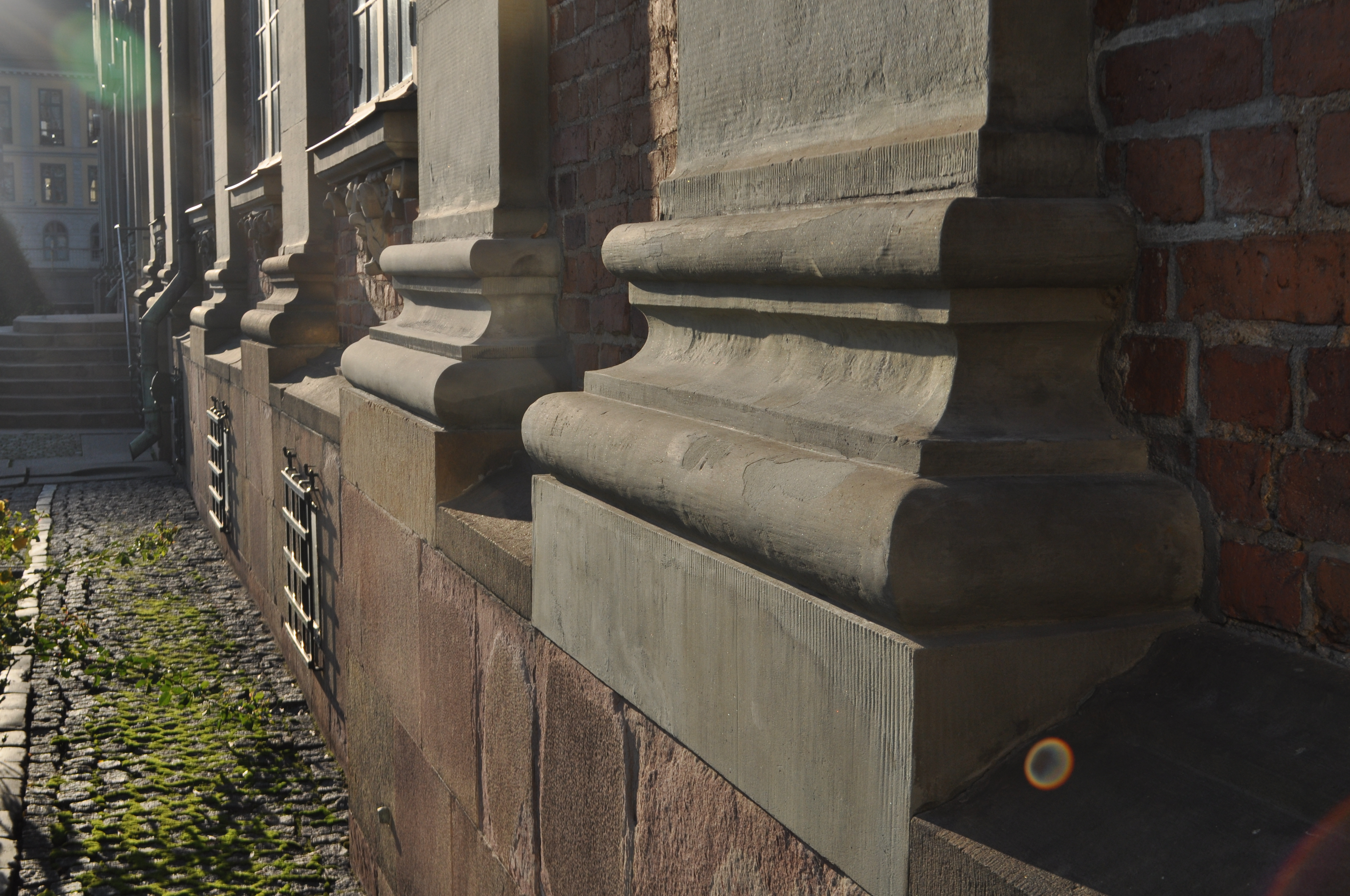 Riddarhuspalatset Stockholm fasaddetalj 2